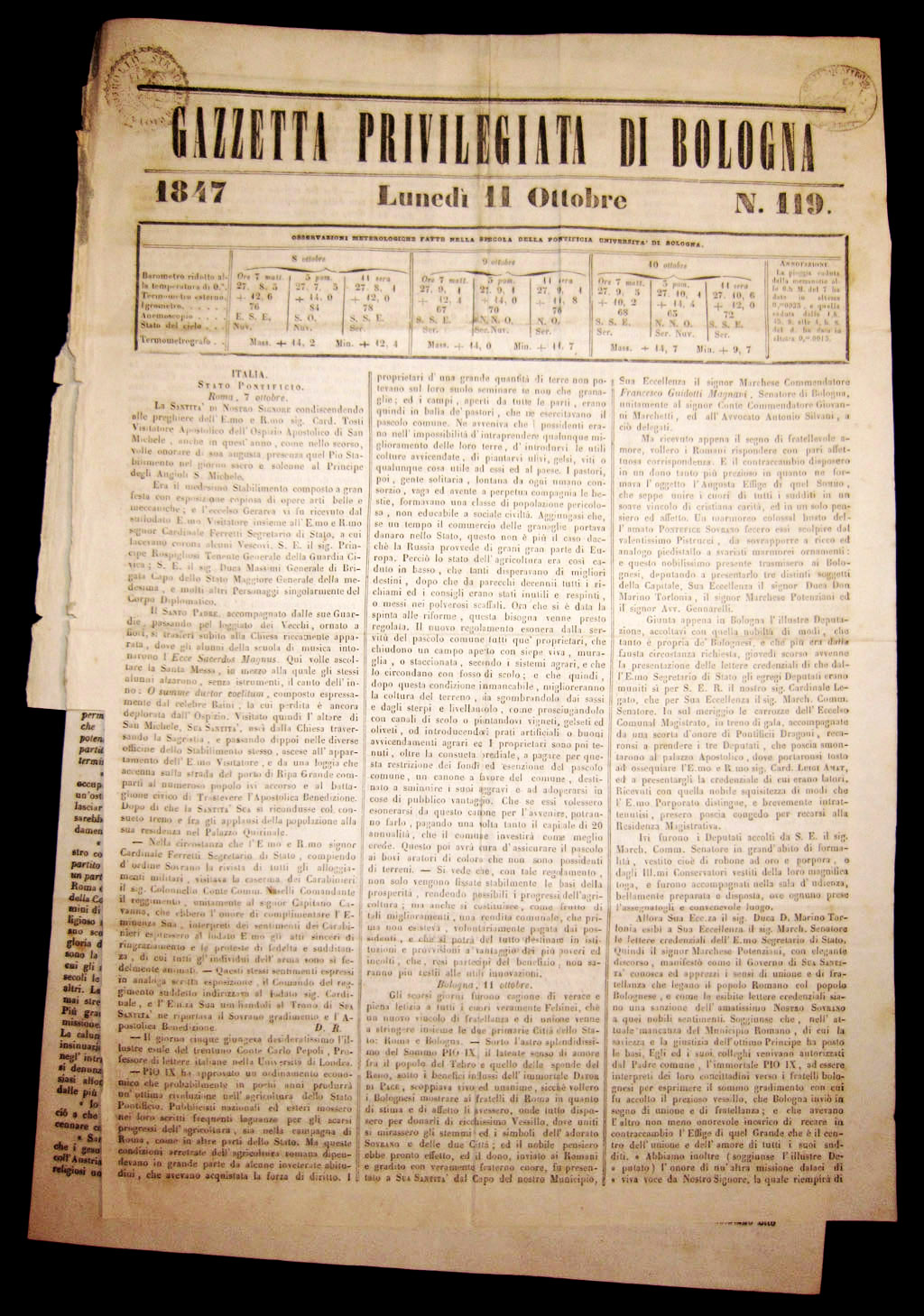 first page